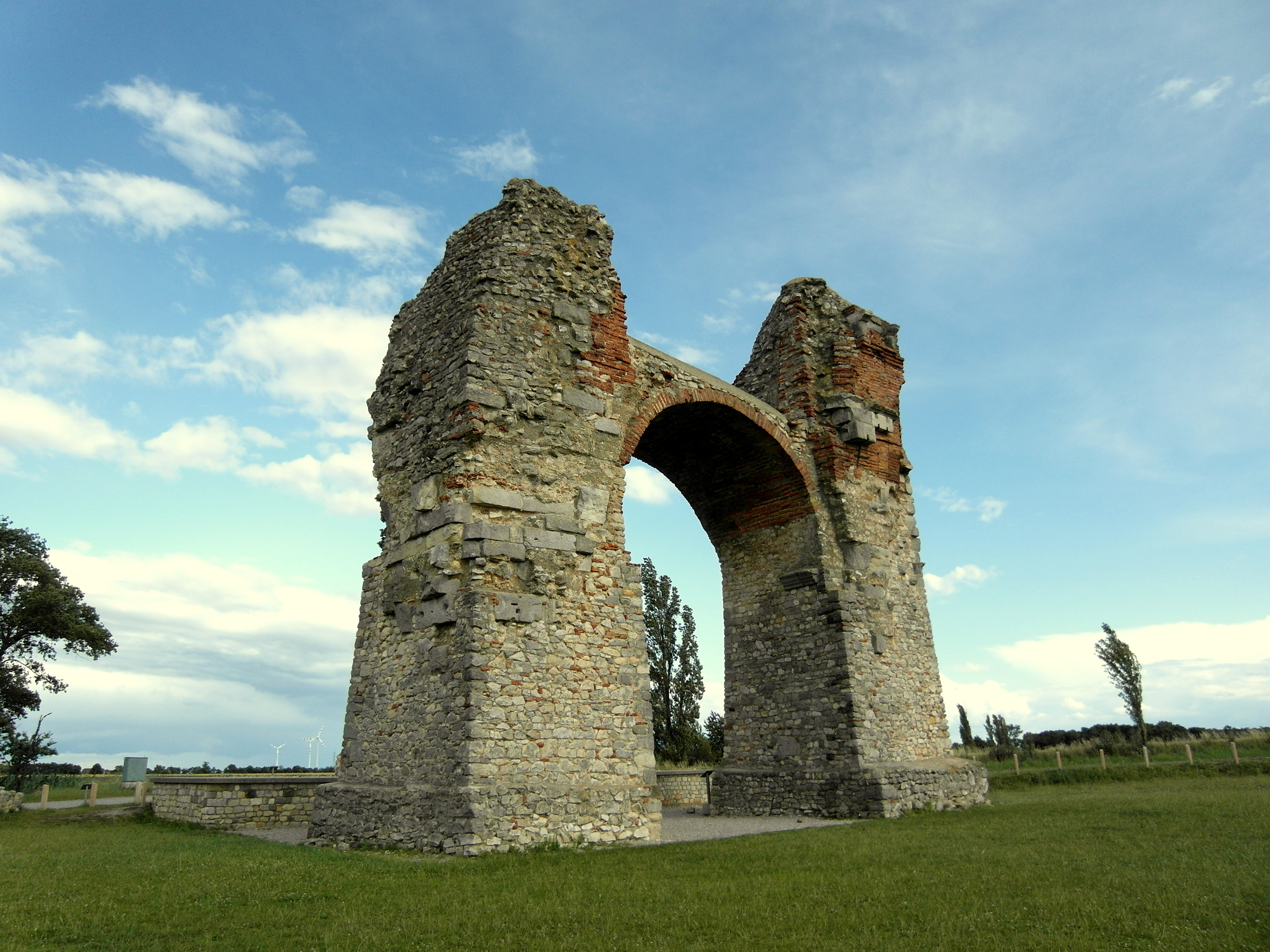 Heidentor in Petronell-Carnuntum